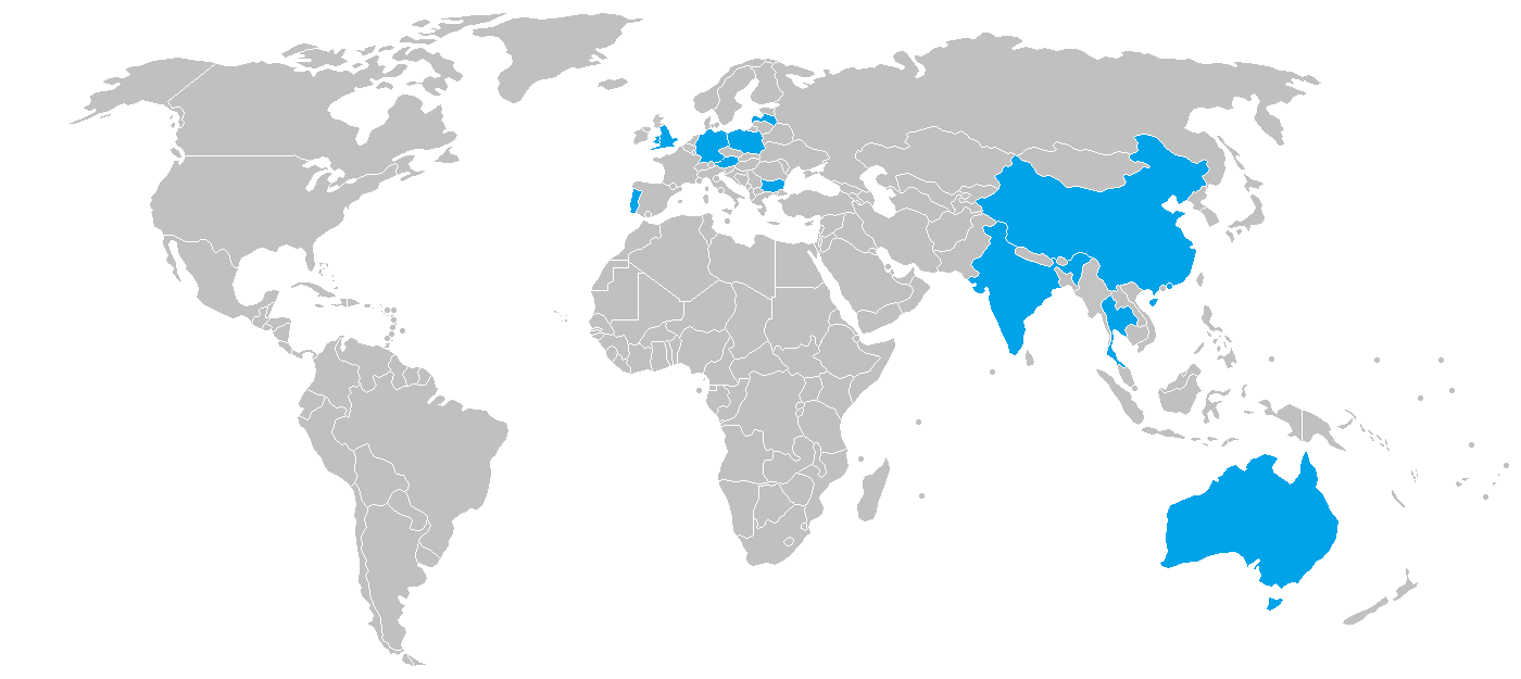 Nations hosting a World Snooker Tour event in 2014/15